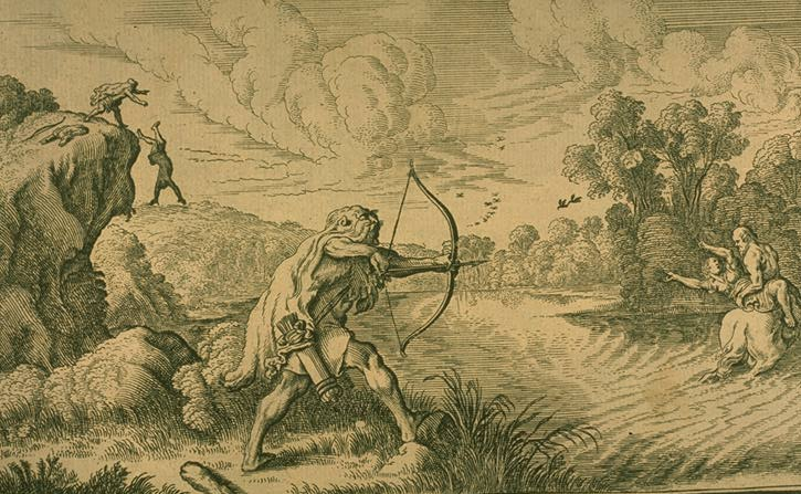 Hercules, Nessus, and Deianira. Engraving by Bauer for Ovid's Metamorphoses Book IX, 99-133.